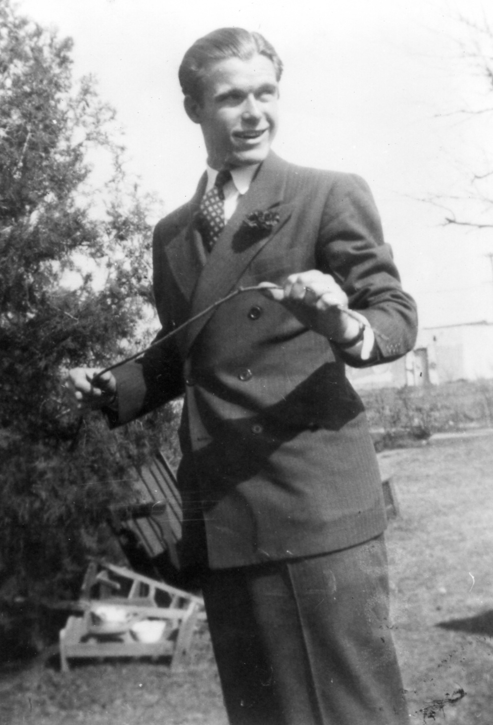 William C. Brinkley with twig.